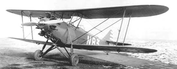 Italian-made Breda Ba.28 trainer aircraft in Nationalist Chinese service